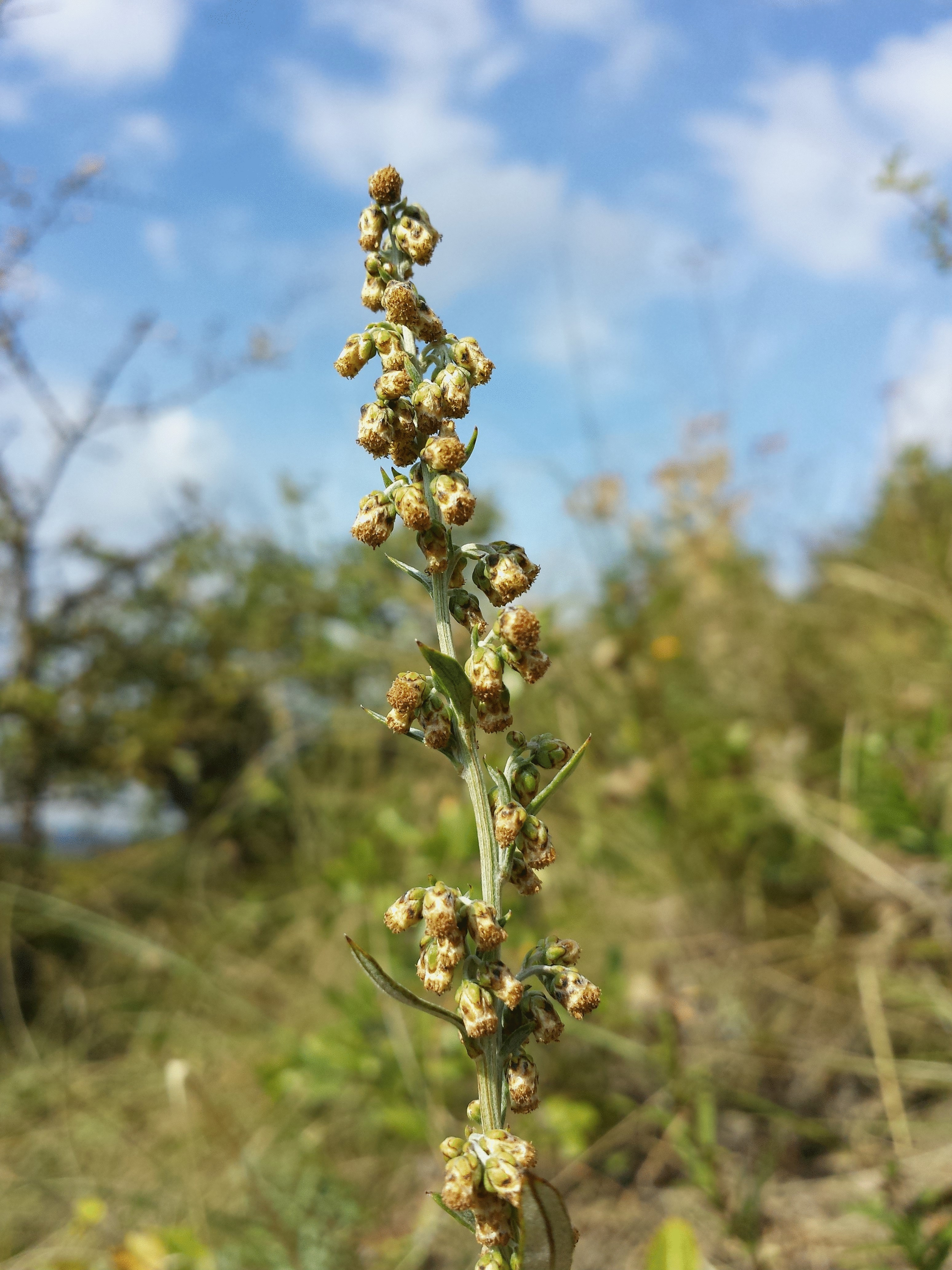 Florescence Taxon: Artemisia pancicii (sensu Fischer et al. EfÖLS 2008, det. M. A. Fischer 2013-09-22) Location: Bisamberg near Vienna, district Korneuburg, Lower Austria - ca. 320 m a.s.l. Habitat: rock steppe